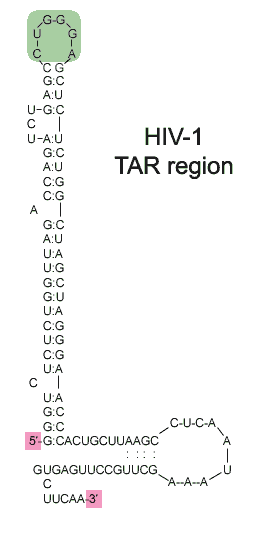 The TAR region of the HIV-1 virus. This was originally based on some information in a textbook.